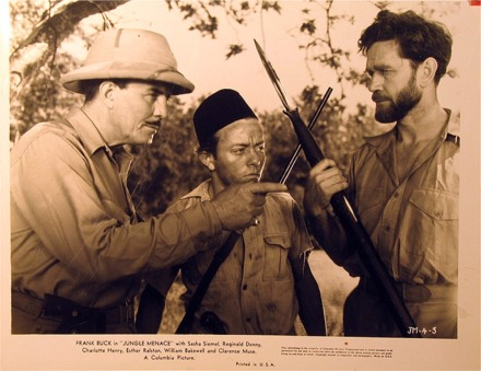 Still from the American film serial Jungle Menace (1937).